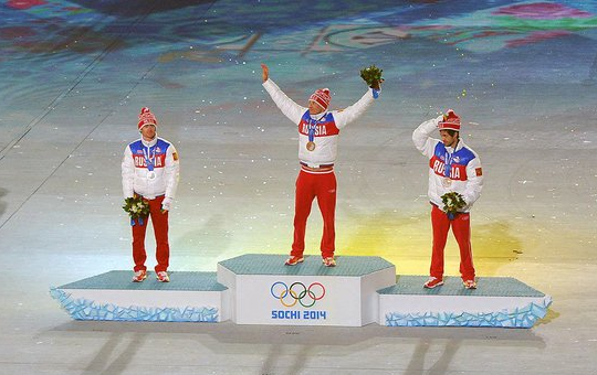 Men's 50 km Mass Start Free - Cross-Country - Sochi 2014 (at the closing ceremony) Gold: Alexander Legkov, Russian Federation. Silver: Maxim Vylegzhanin, Russian Fed. Bronze: Ilia Chernousov, Russian Fed. (